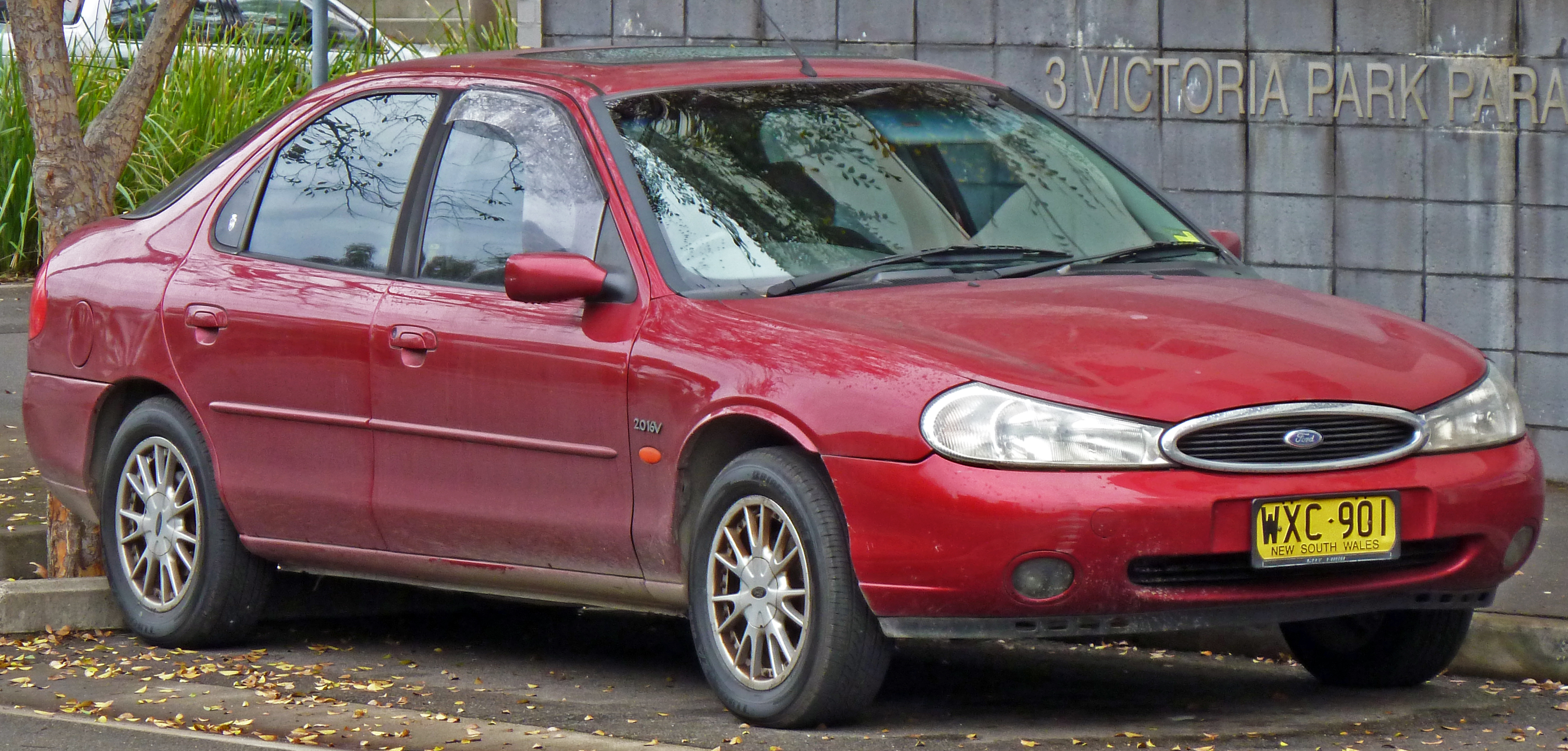 2000 Ford Mondeo (HE) Ghia hatchback. Photographed in Zetland, New South Wales, Australia.